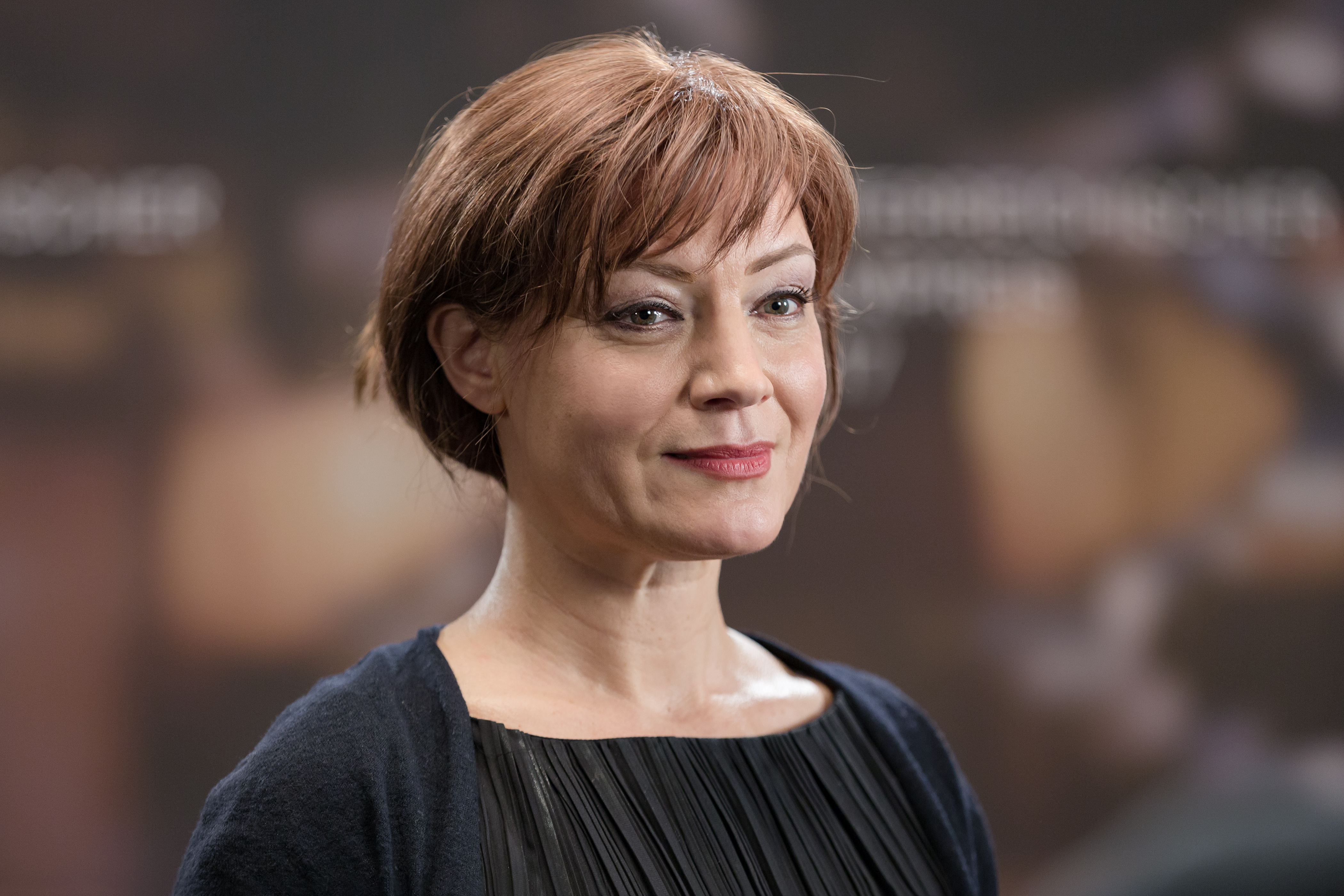 Marion Mitterhammer, actress in Stille Reserven, at the Austrian Film Awards 2017 (Rathaus, Vienna,Austria).